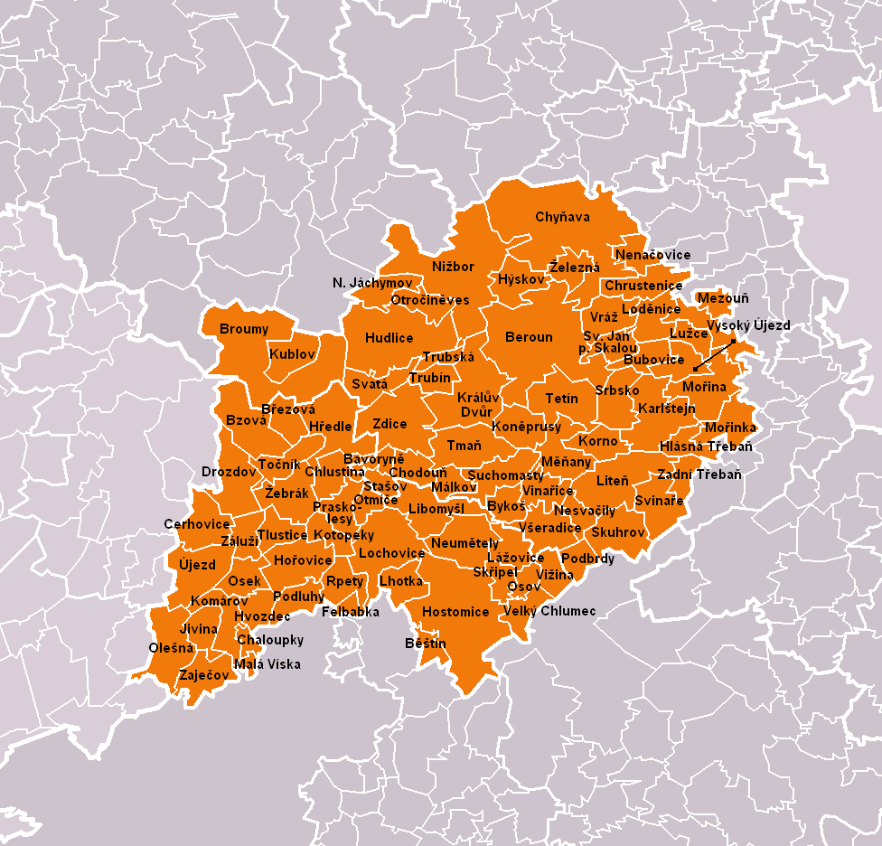 Municipalities of Beroun District as of 2008 (85 municipalities in total). White lines of variable thickness show boundaries of municipalities, administrative areas, districts and regions.